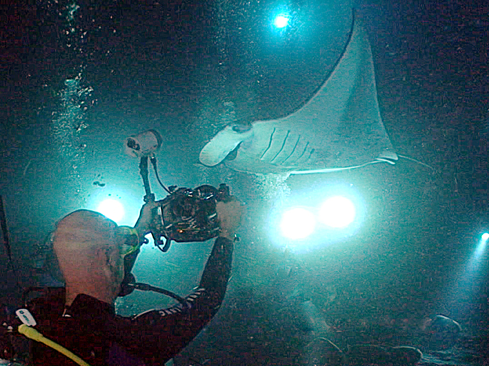 This is a photo of a Manta Ray, taken in a night scua dive in Kona, Hawaii. The Manta Ray Night Dive is the most well known and popular dive on the Big Island of Hawaii, drawing hundreds of participants each evening.